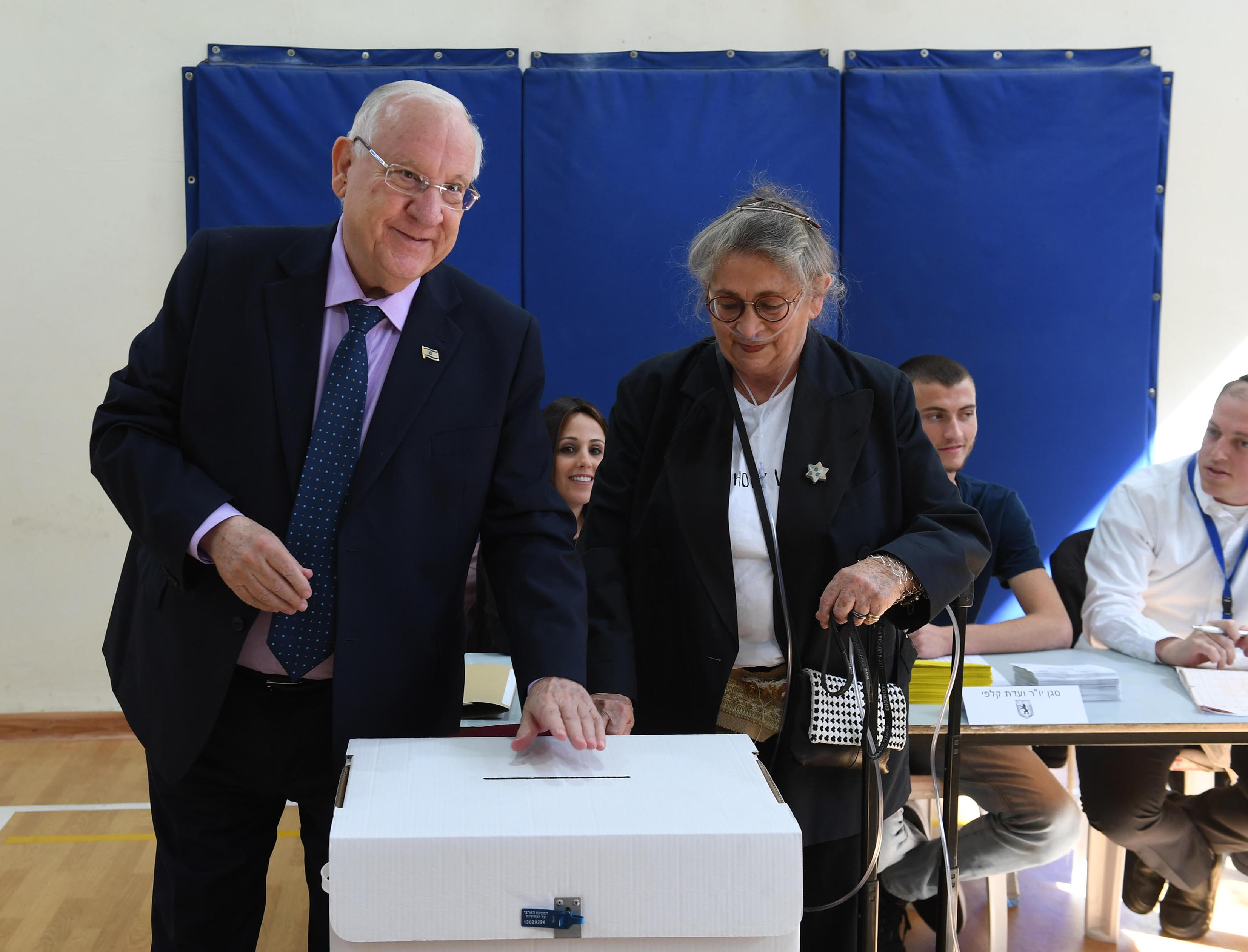 The President of Israel, Reuven Rivlin, and his wife Nechama cast their ballots at a voting station on the morning of the municipal elections in Israel, on October 30, 2018, in Jerusalem. Mark Neyman/GPO.